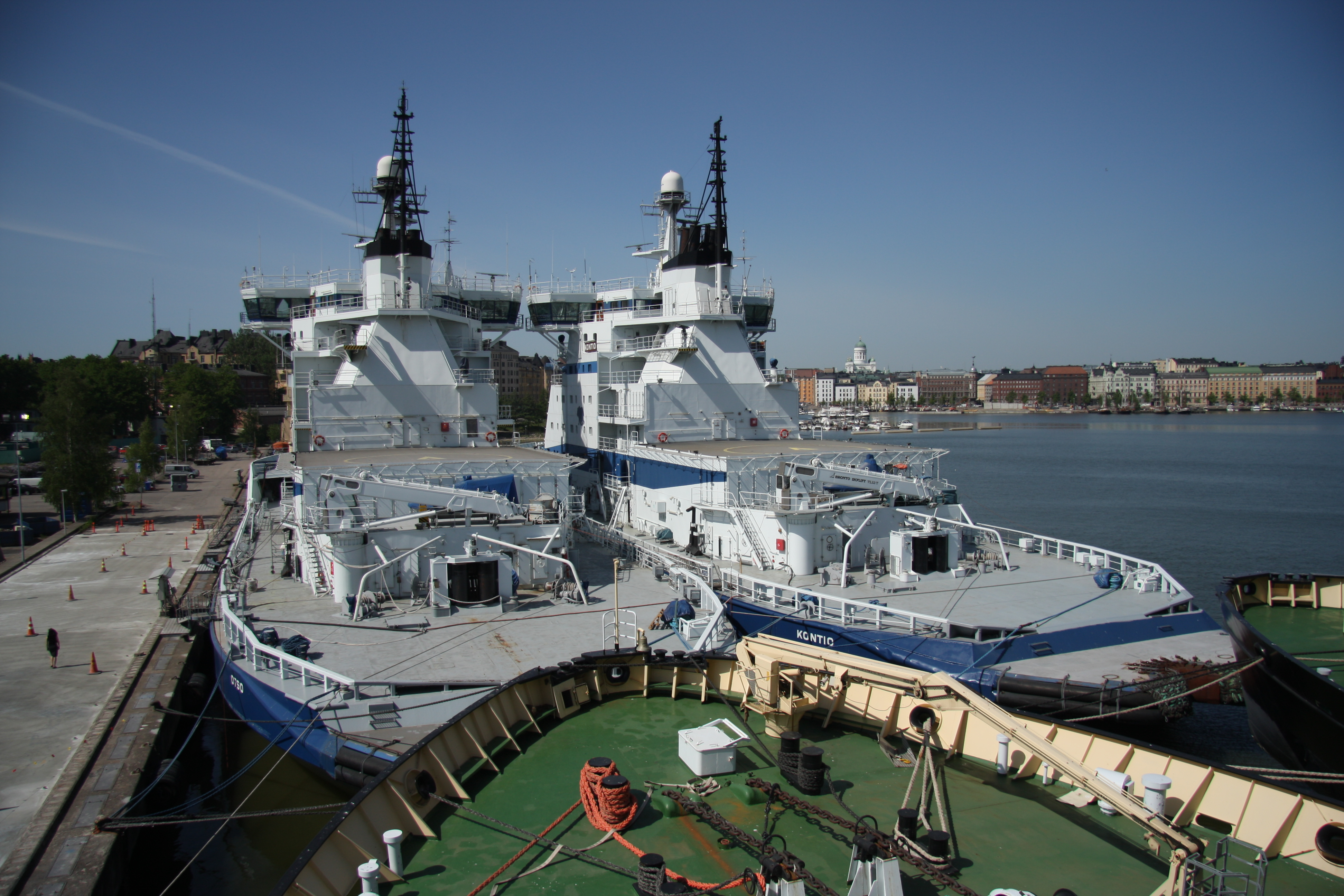 Icebreakers Kontio and Otso seen from the deck of the icebreaker Urho at the shore of Katajanokka, Helsinki. (Trivia: both Kontio and Otso are dialectal Finnish words for a bear.) Kontio: IMO Number: 8518120 MMSI Number: 230251000 Callsign: OIRV Length: 100 m Beam: 24 m Otso: IMO Number: 8405880 MMSI Number: 230252000 Callsign: OIRT Length: 99 m Beam: 25 m